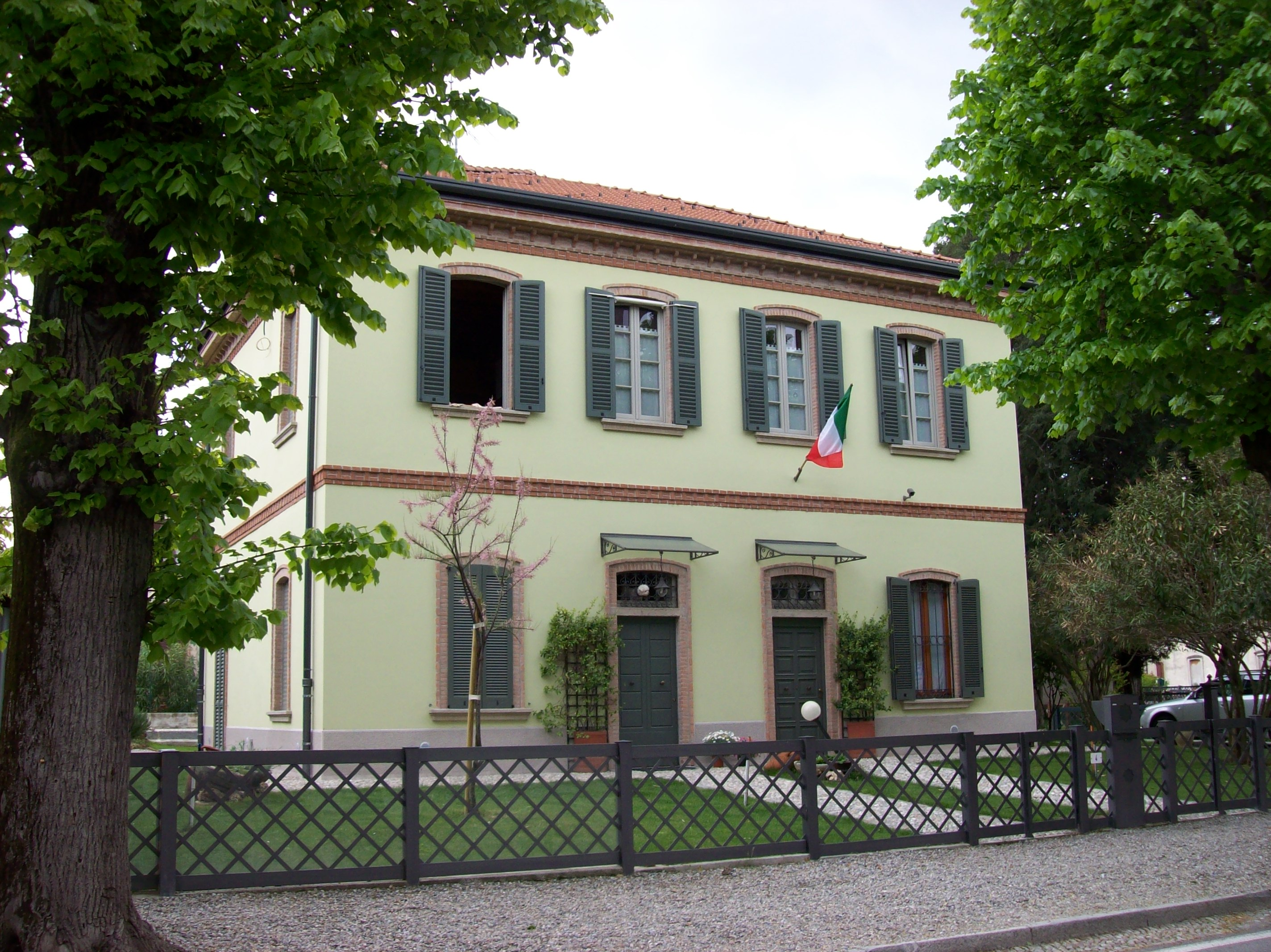 Crespi d'Adda workers' village (Capriate San Gervasio, province of Bergamo, Italy): particular of cotton mill workers' bifamiliar house